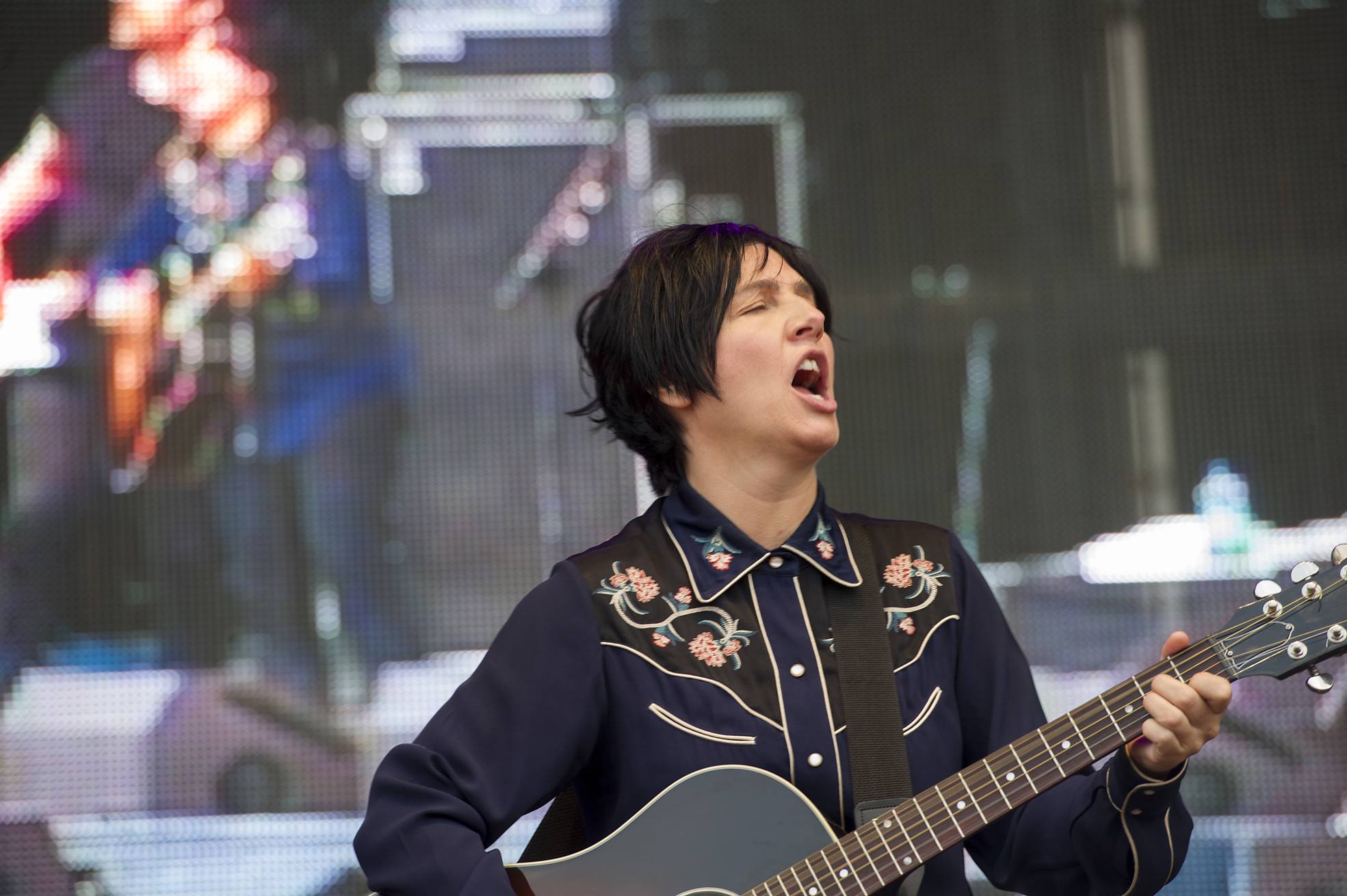 GIBRALTAR MUSIC FESTIVAL 2013 - TEXAS